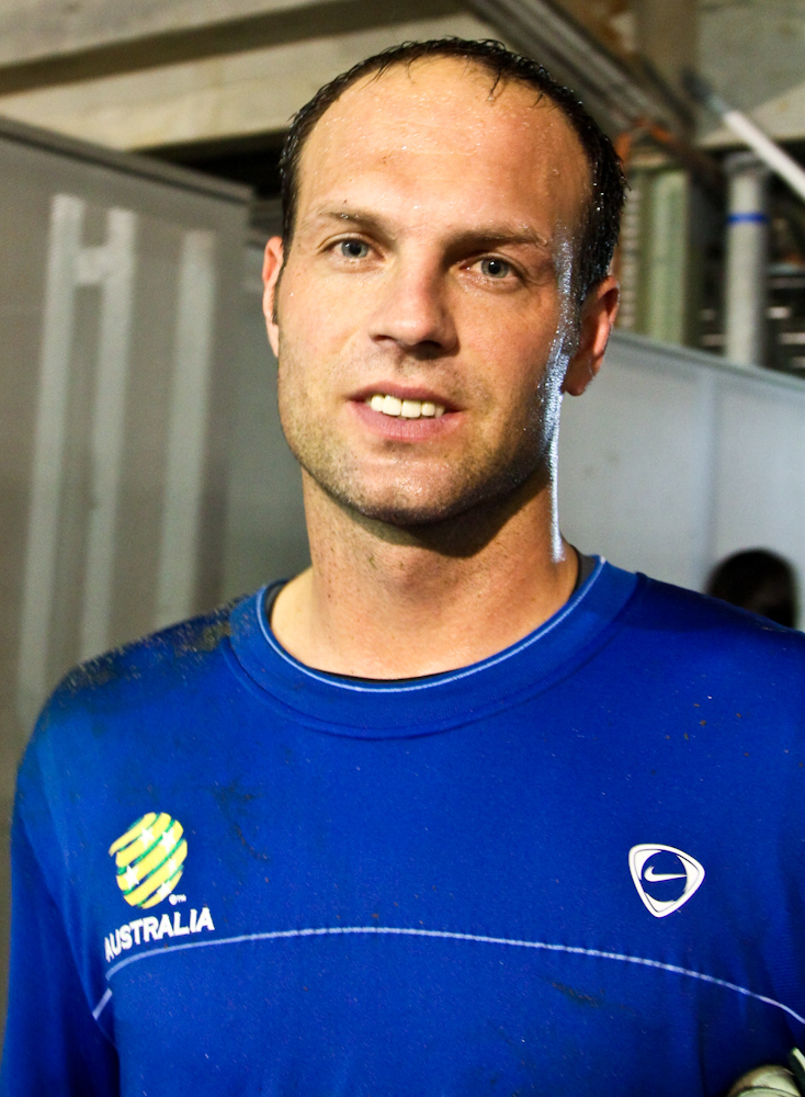 Michael Petkovic after a training session at ANZ Stadium the day before a World Cup Qualifying game against Uzbekistan.